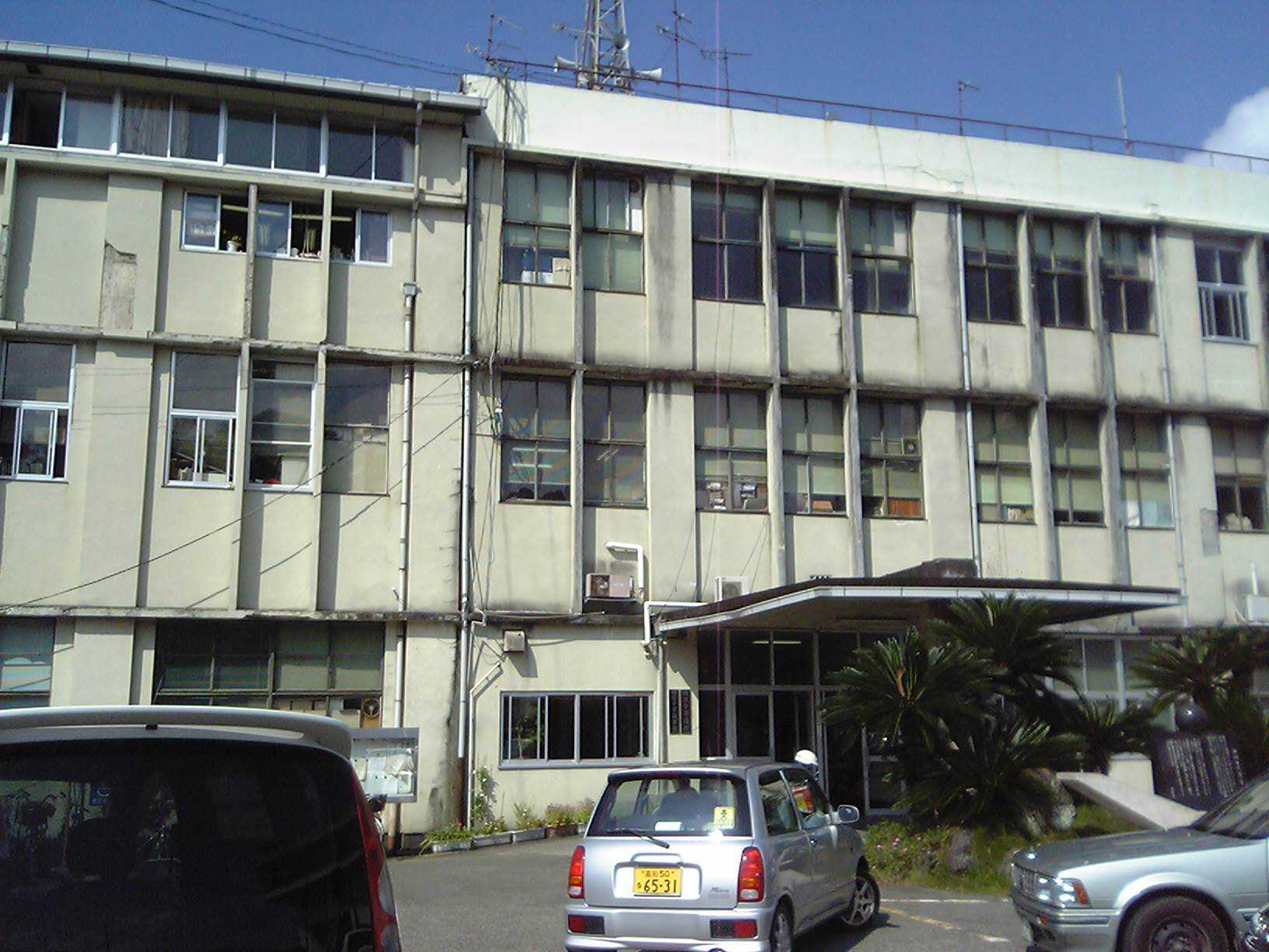 City office of Shimanto, Kōchi, Japan